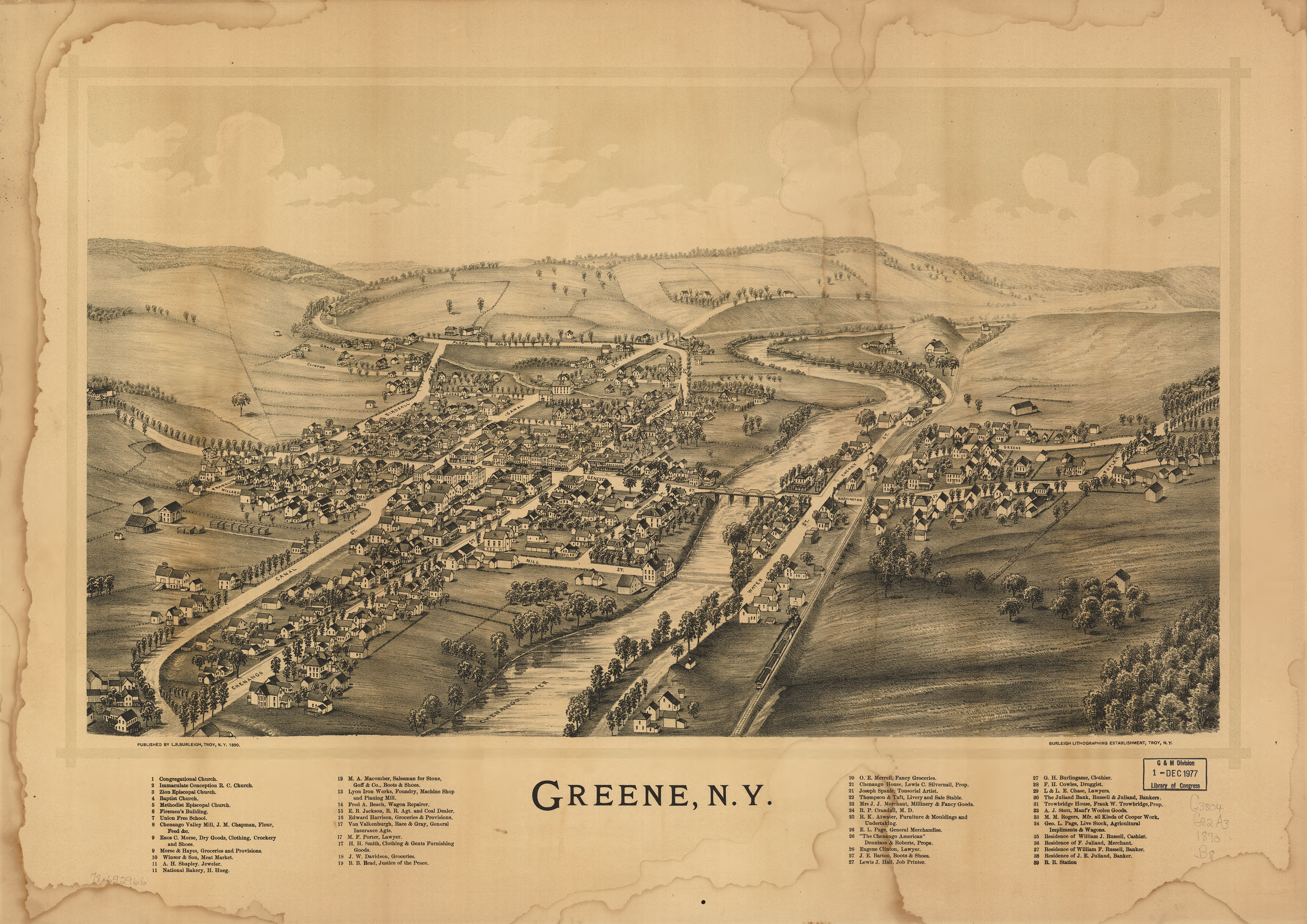 Perspective map not drawn to scale. Bird's-eye-view. In lower right margin: Burleigh Lithographing Establishment, Troy, N.Y. LC Panoramic maps (2nd ed.), 570.1 Available also through the Library of Congress Web site as a raster image. Indexed for points of interest. AACR2